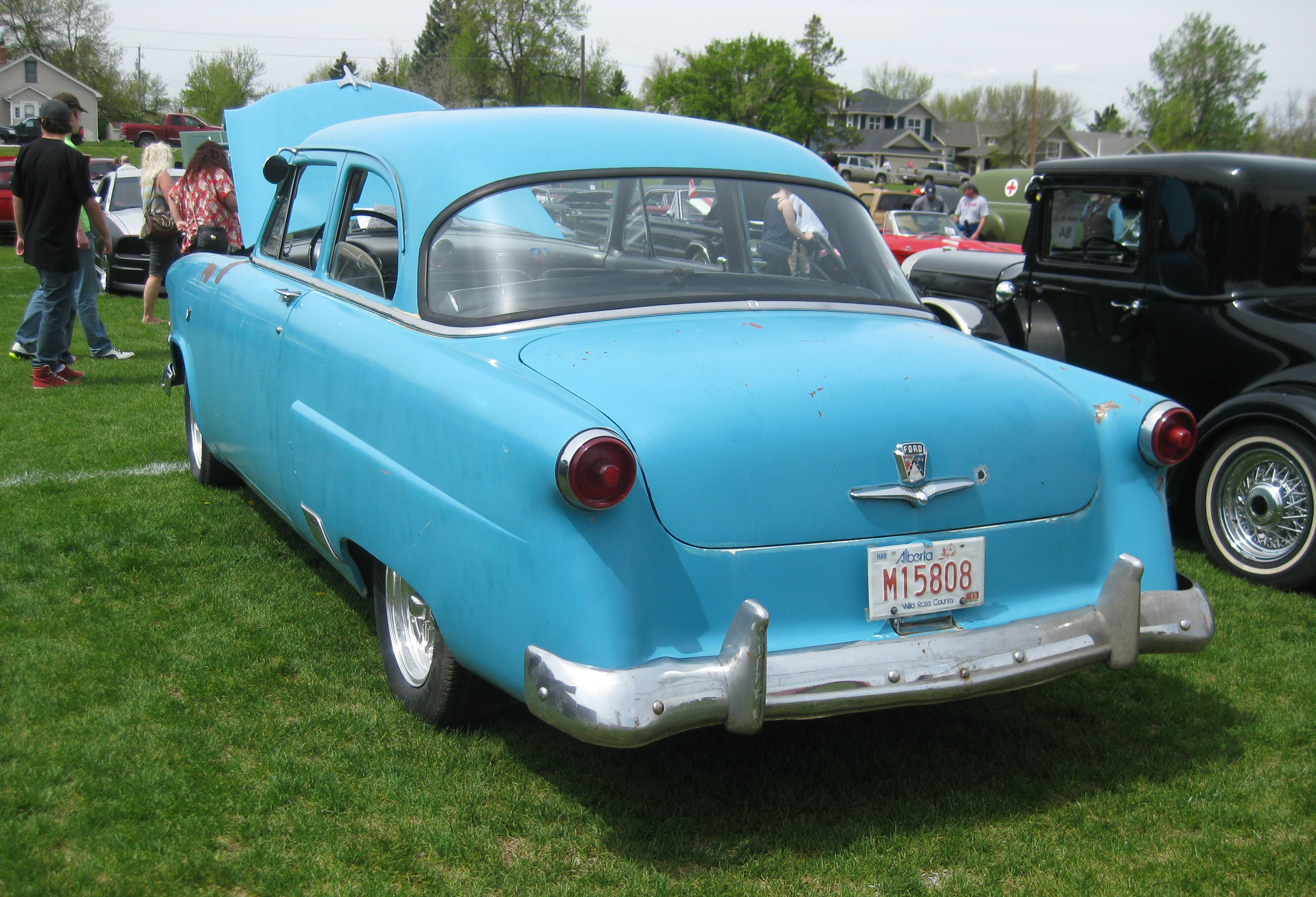 1953 Ford two door in unrestored looking condition.